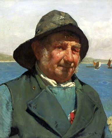 The Old Salt